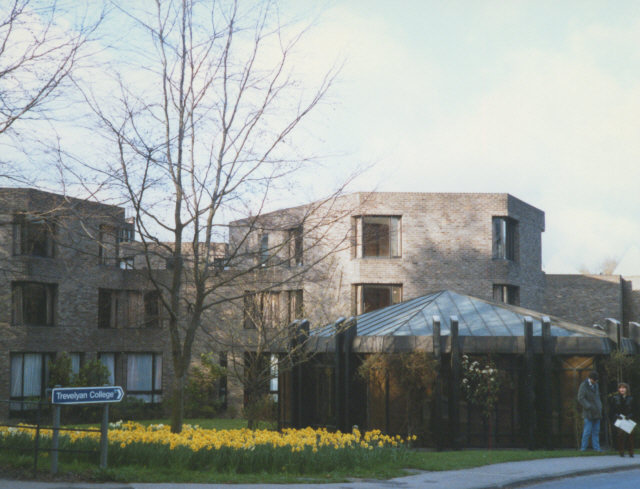 Trevelyan College, Durham.